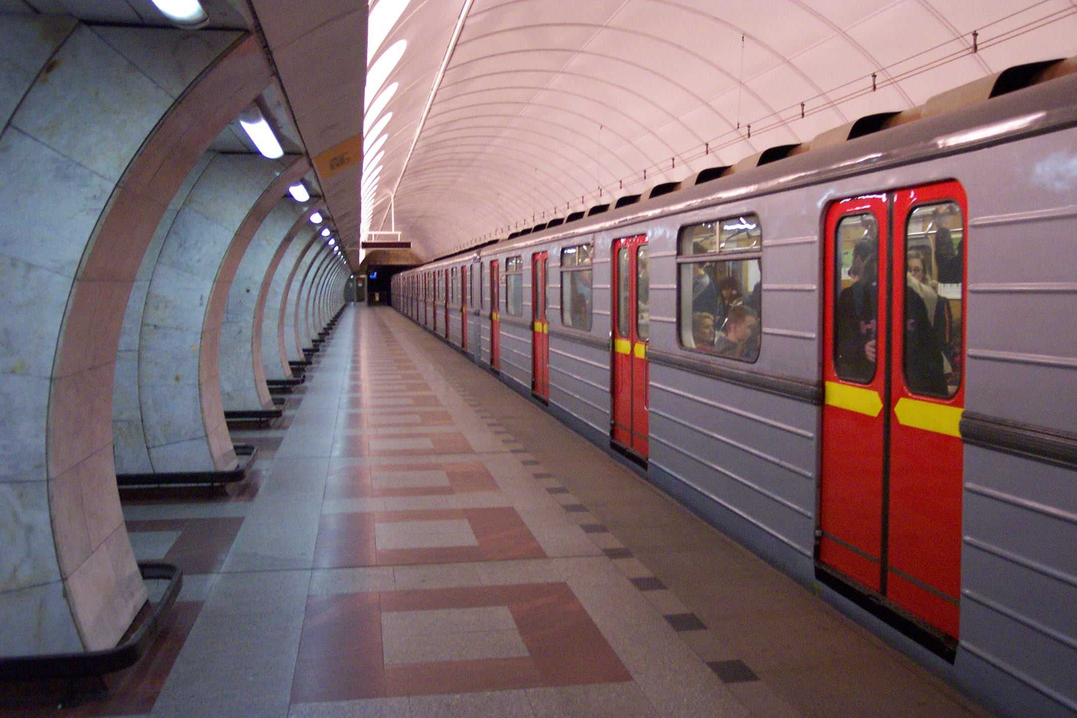 Train in Prague metro station Anděl